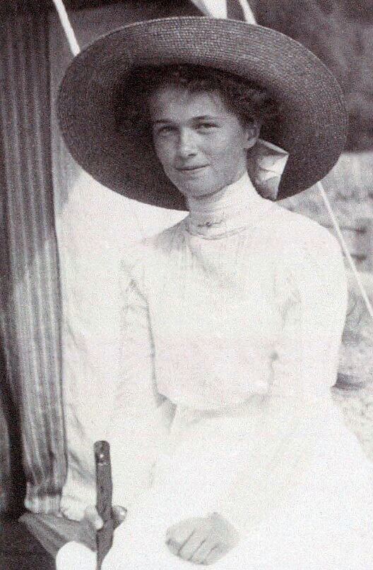 Eldest daughter of Tsar Nikolai II, Olga